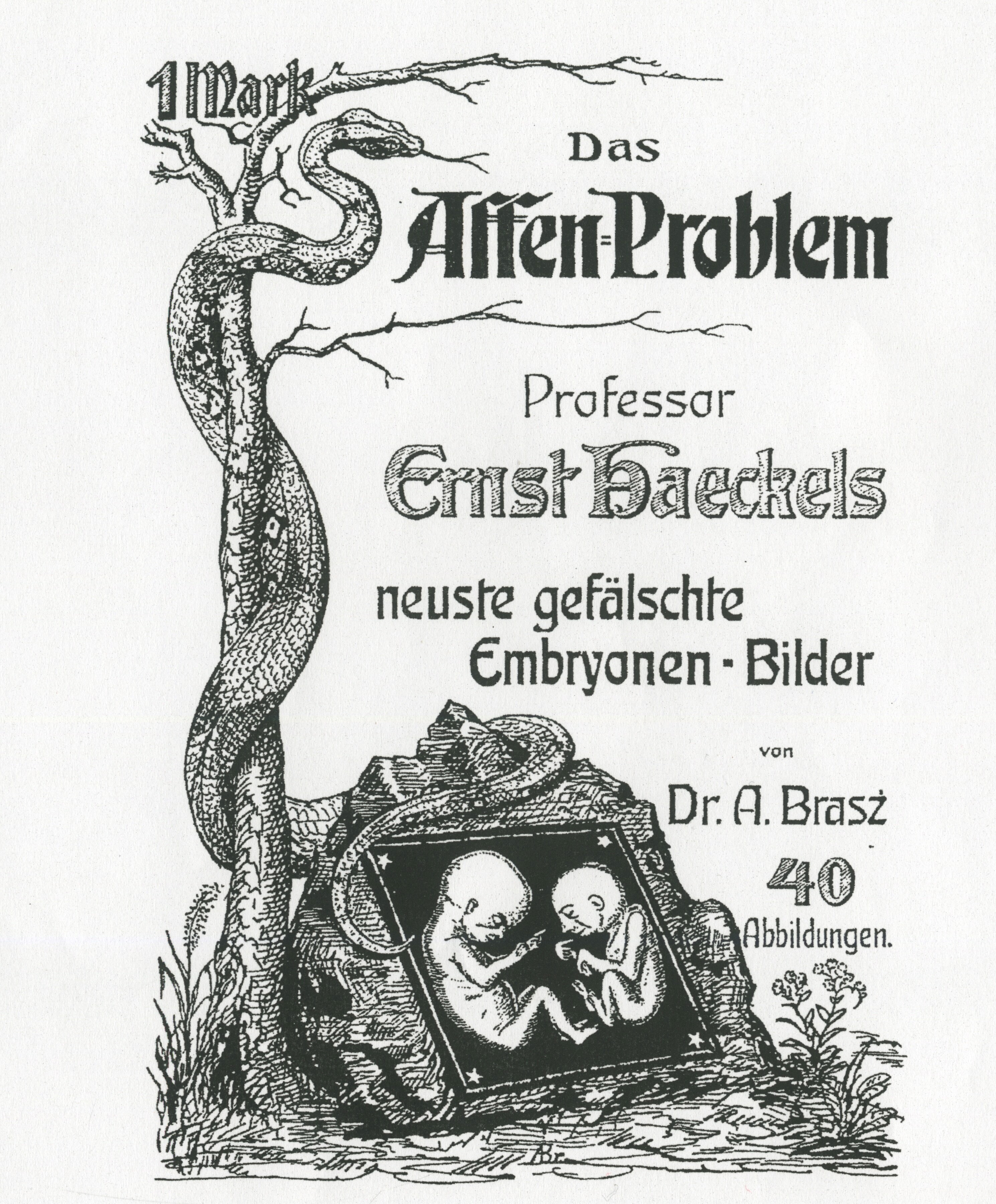 Title page of Arnold Braß: Das Affen-Problem: Professor E. Haeckel's Darstellungs- und Kampfesweise sachl. dargelegt. The book was written by a member of the Keplerbund, a christian organisation that fought monism and evolutionary theory.